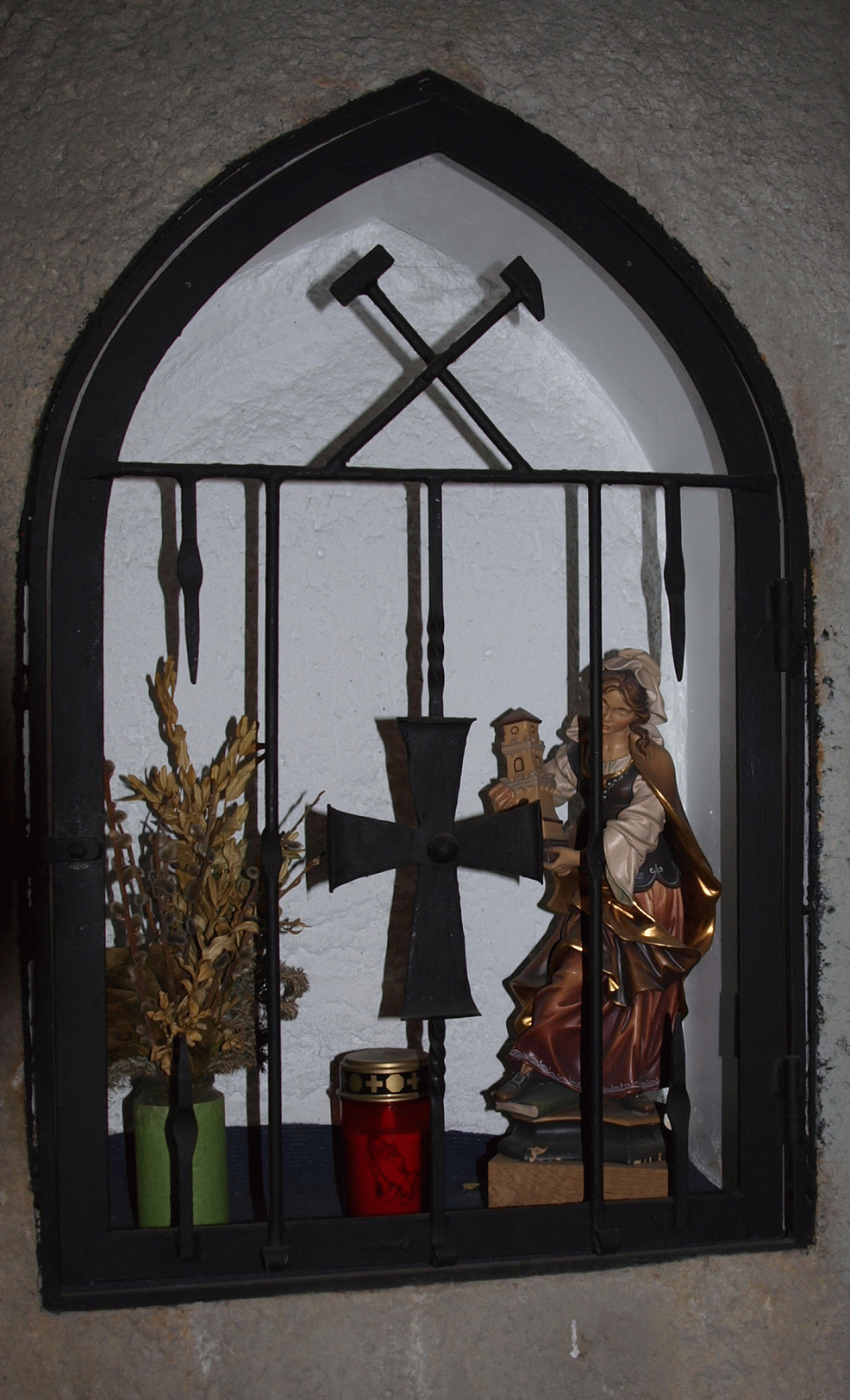 Saint Barbara, patron saint of the miners - entry area of the 300m long access tunnel - Kopswerk II